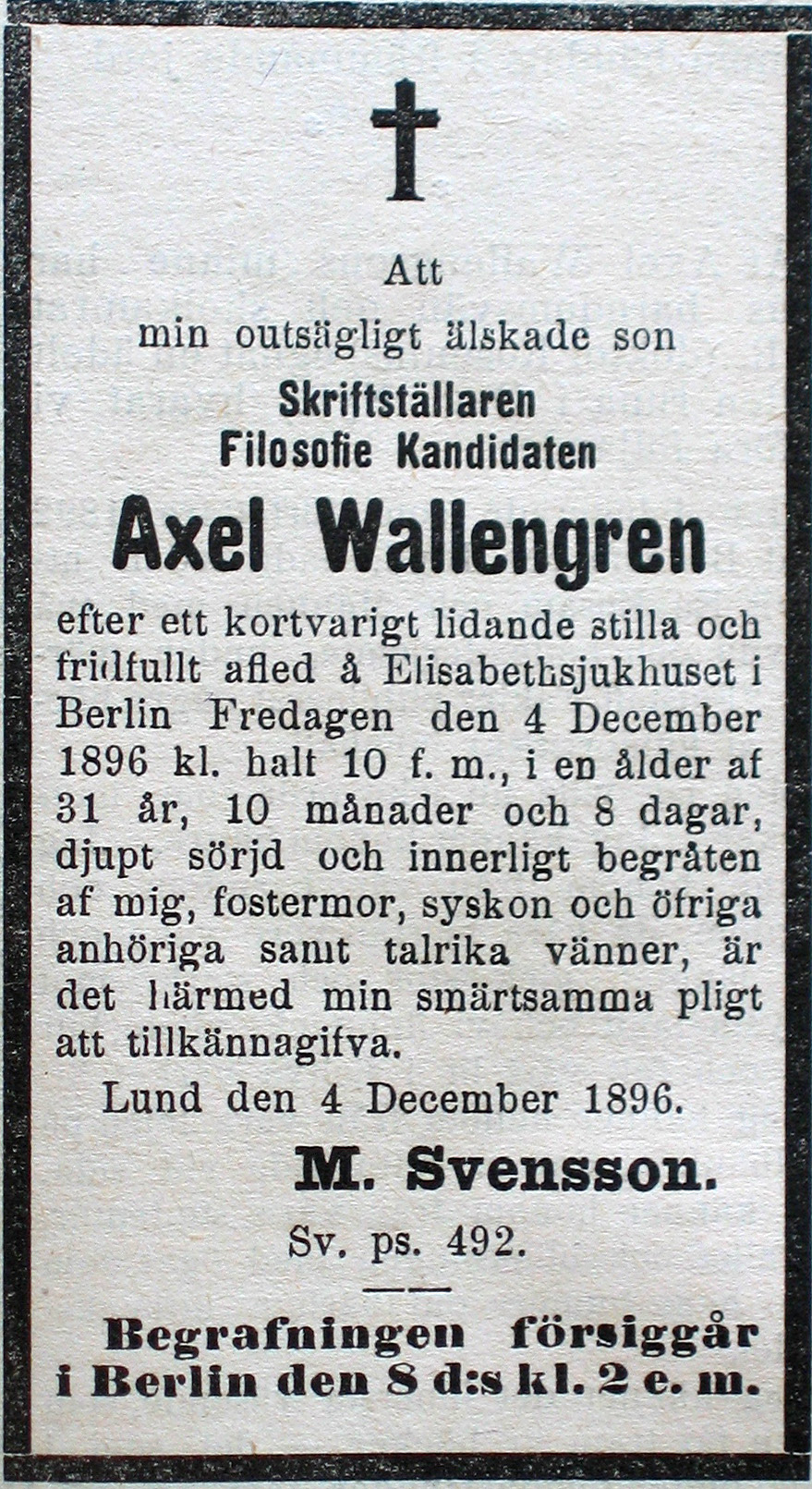 Obituary notice for Swedish author Axel Wallengren (1865-96)